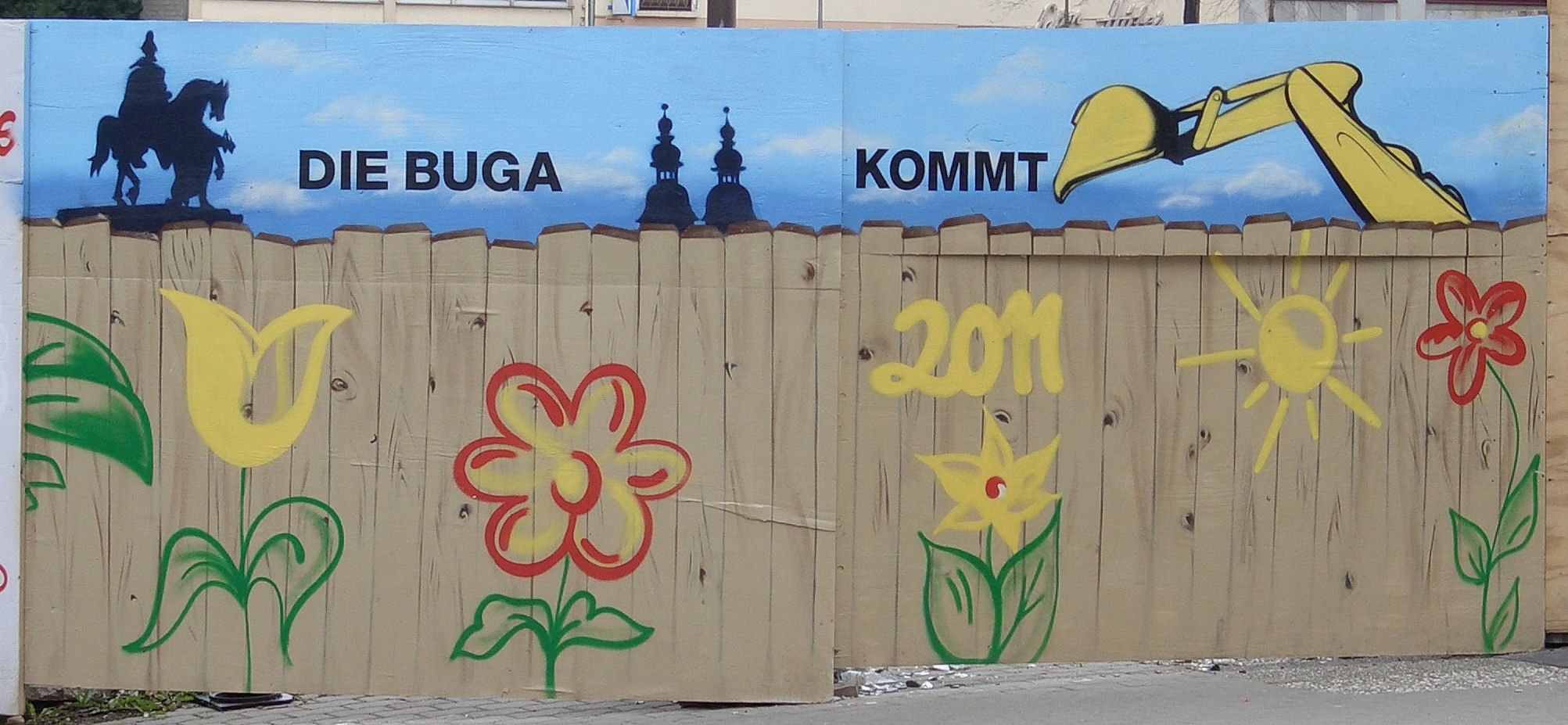 The National Garden Show 2011 in Koblenz